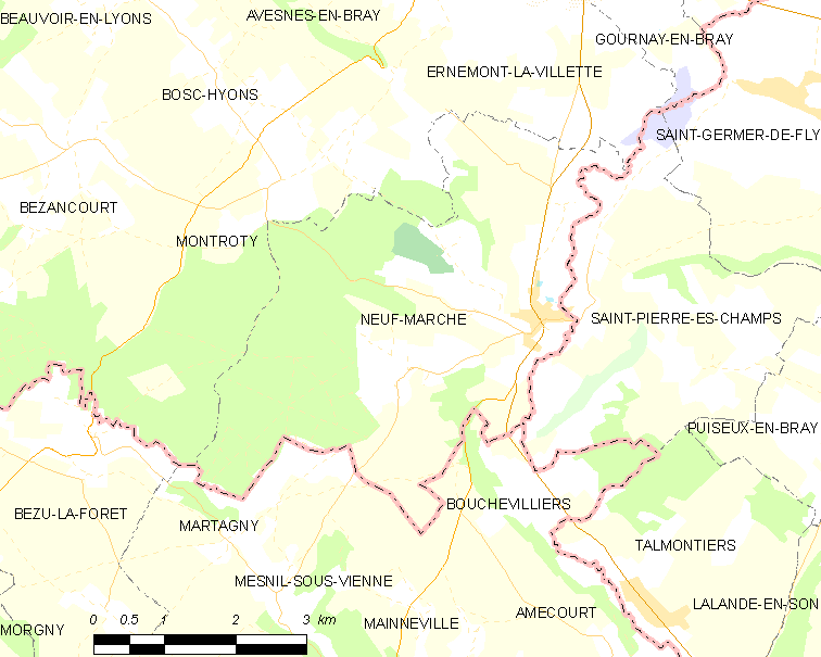 Map of French municipality Neuf-Marché